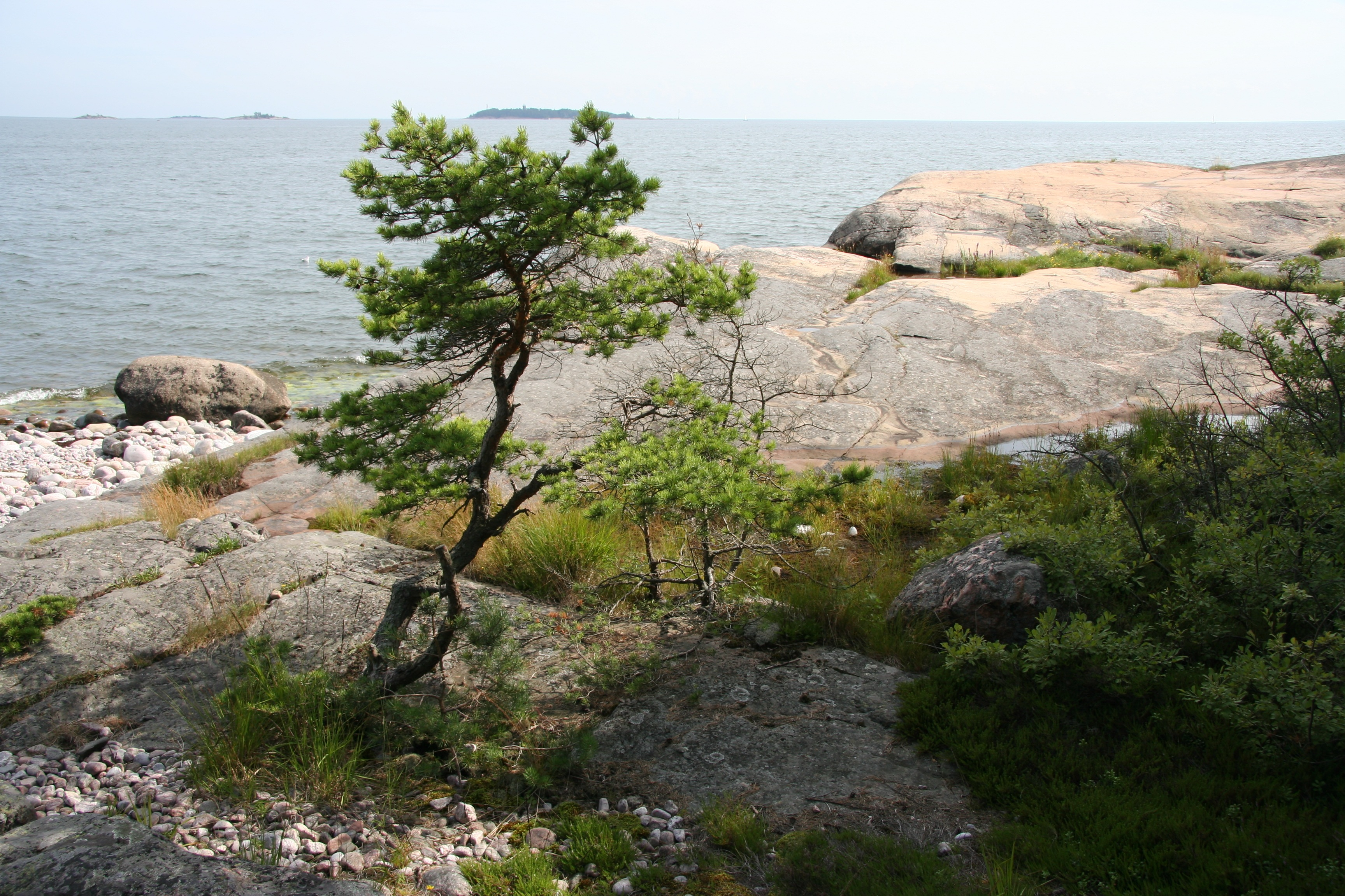 Island Rövaren, recreational area of Espoo, Finland